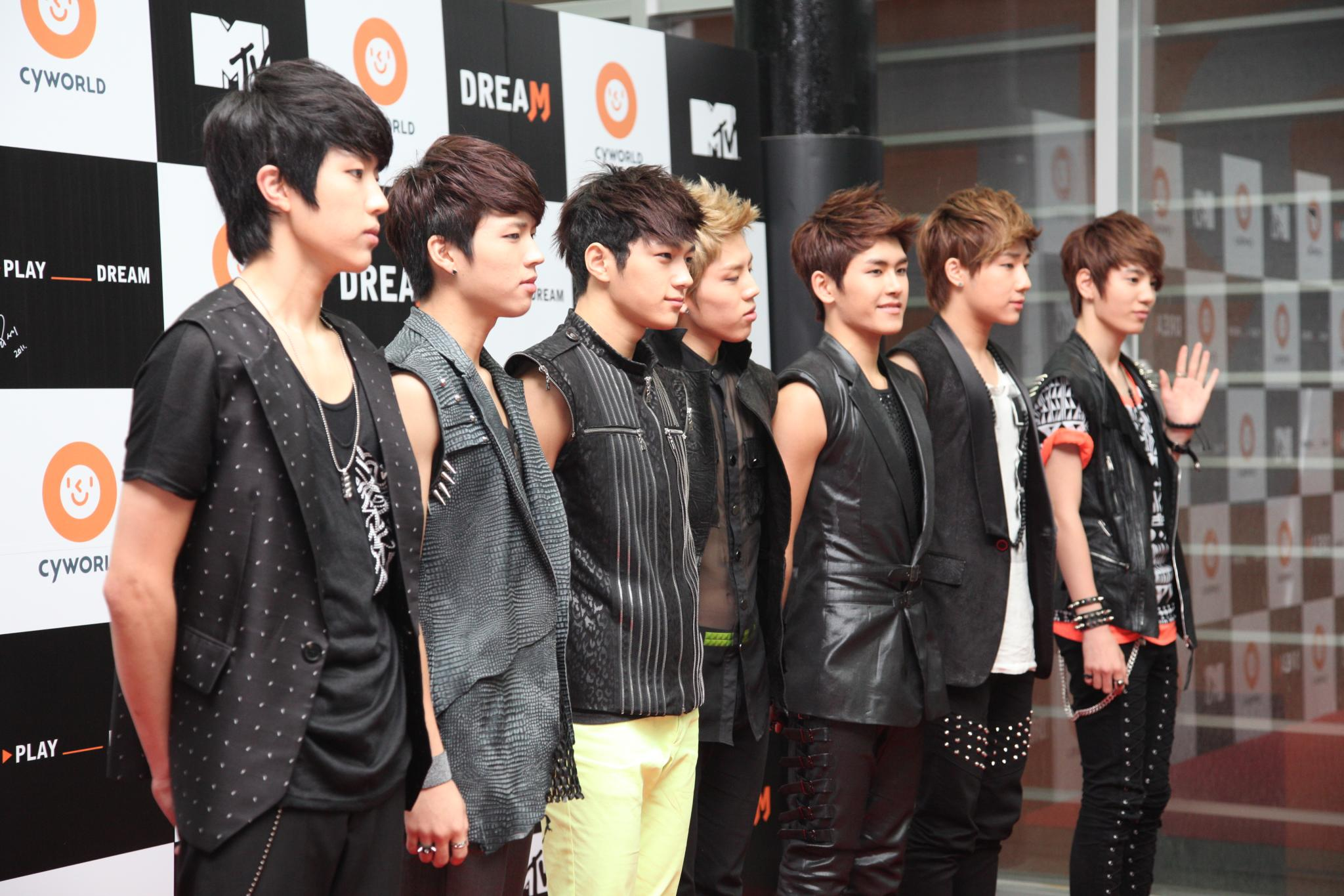 Infinite(South Korean band) in Cyworld Dream Music Festival